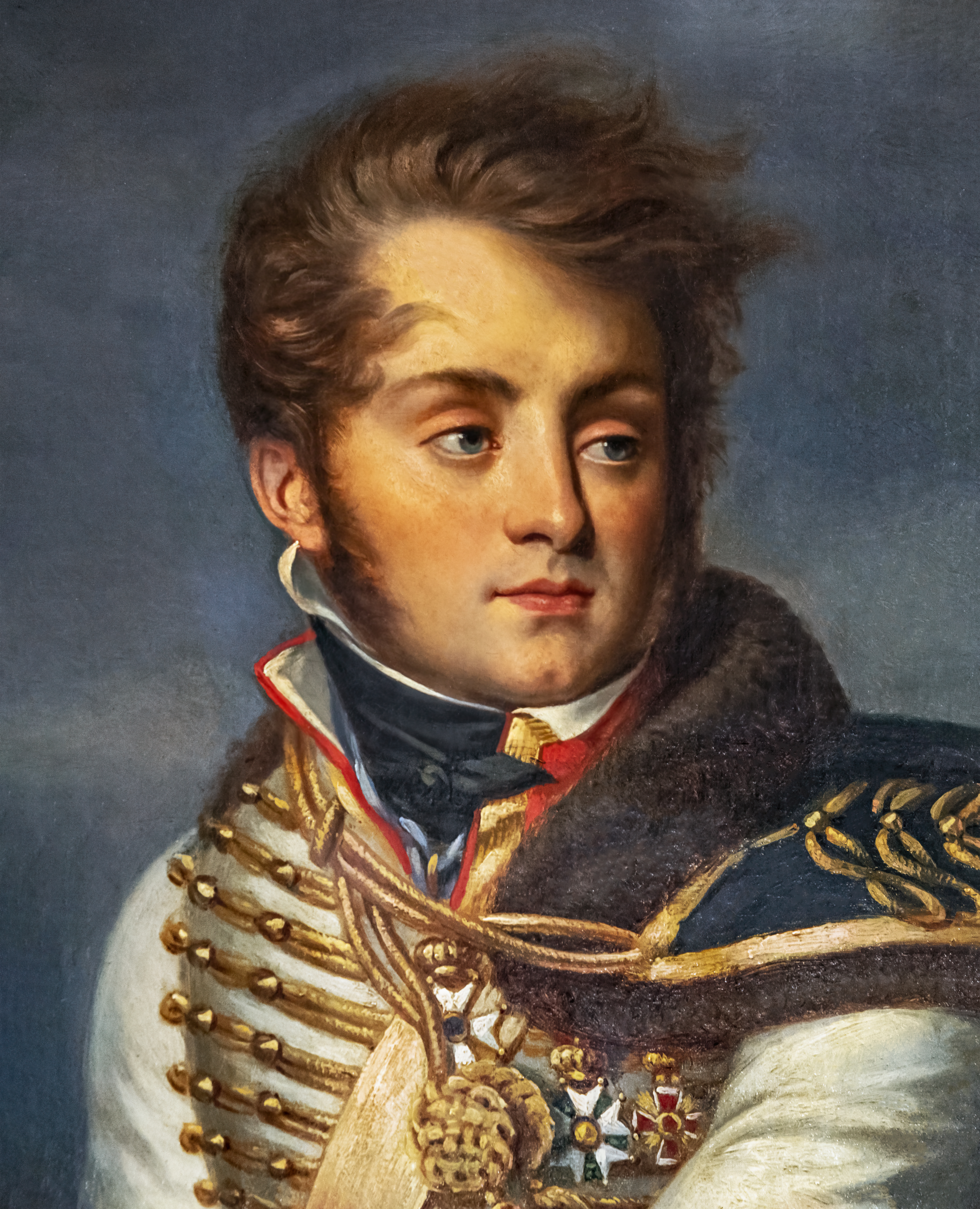 Depicted person: Louis-François, Baron Lejeune – French general, painter, and lithographer